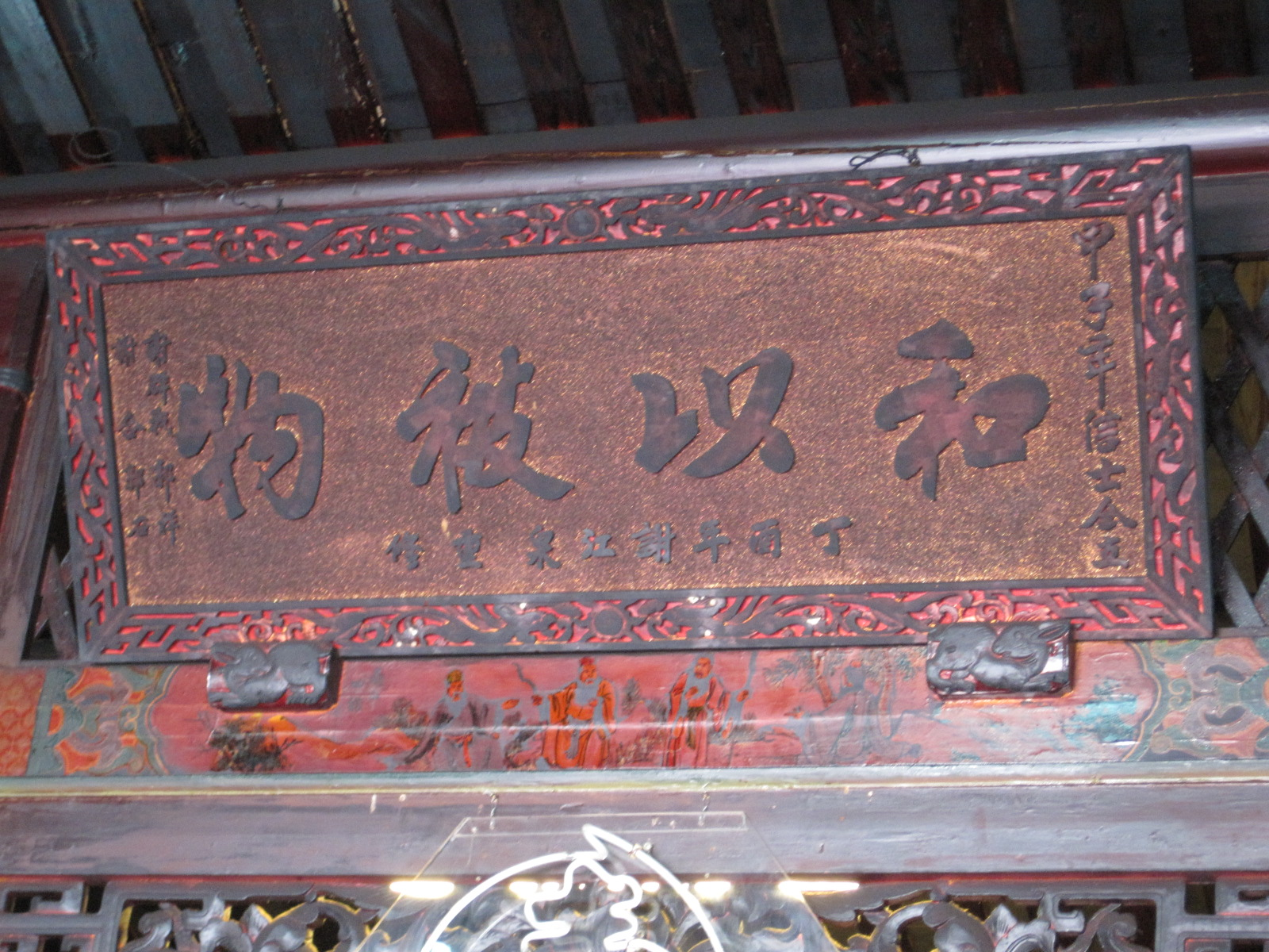 A historical plaque in Temple of Wind-god, Tainan, Taiwan. 中文（台灣）: 臺南風神廟的「和以被物」匾。